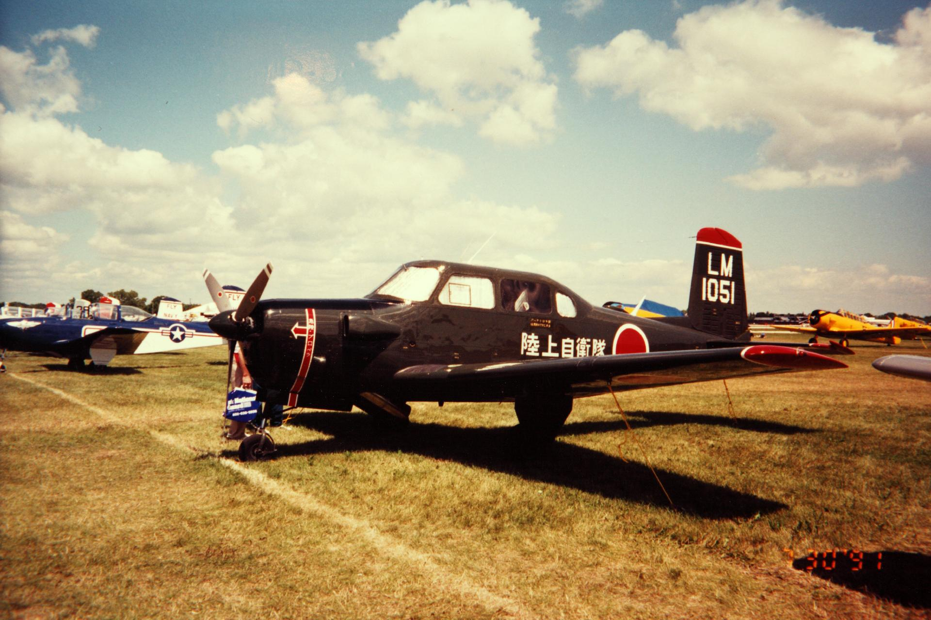 Catalog #: 01_00080618 Title: Fuji, LM-1 Corporation Name: Fuji Additional Information: Japan Designation: LM-1 Tags: Fuji, LM-1